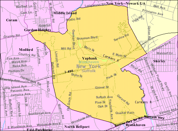 U.S. Census 2000 reference map for Yaphank